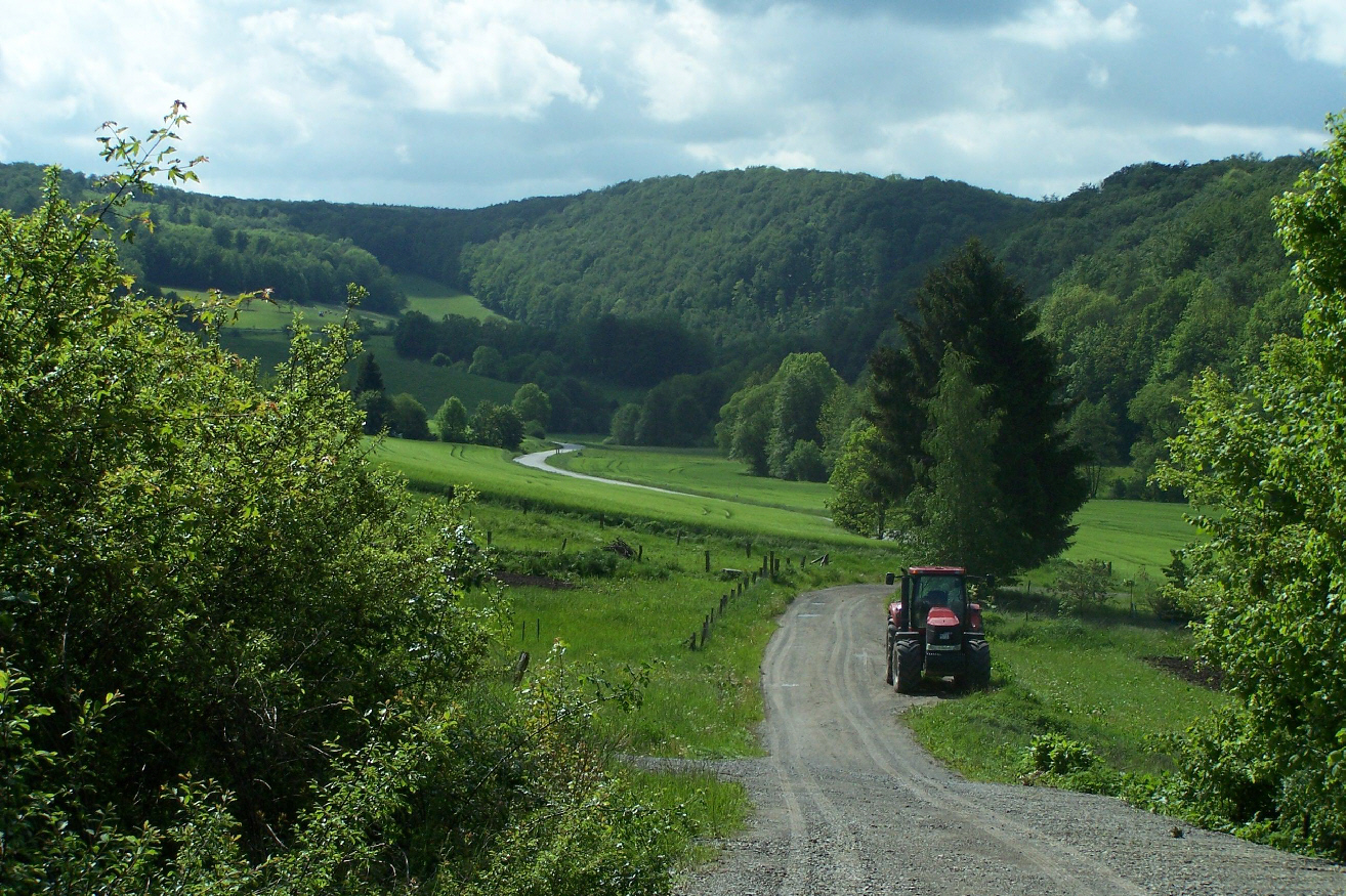 In the Lämpertsbach dell in Hallungen village.